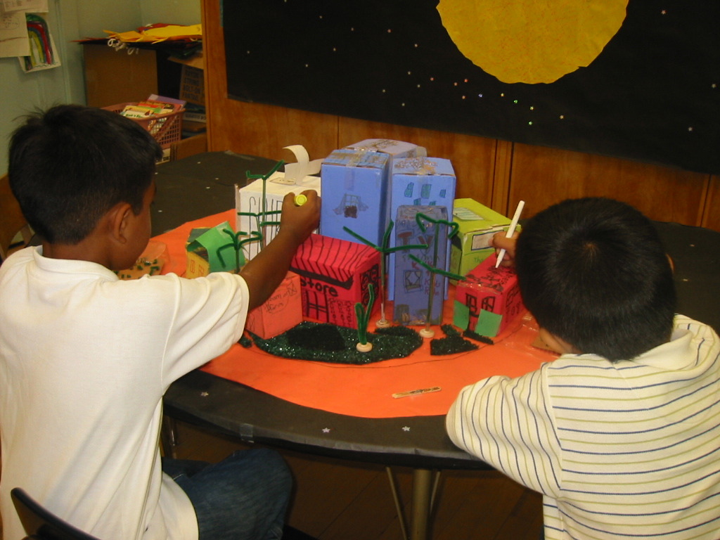 These 2nd graders from Buchanan Math Science Magnet School in Los Angeles, California, work on an art project. They studied the environment on the Planet Mars, then designed a Martian community.